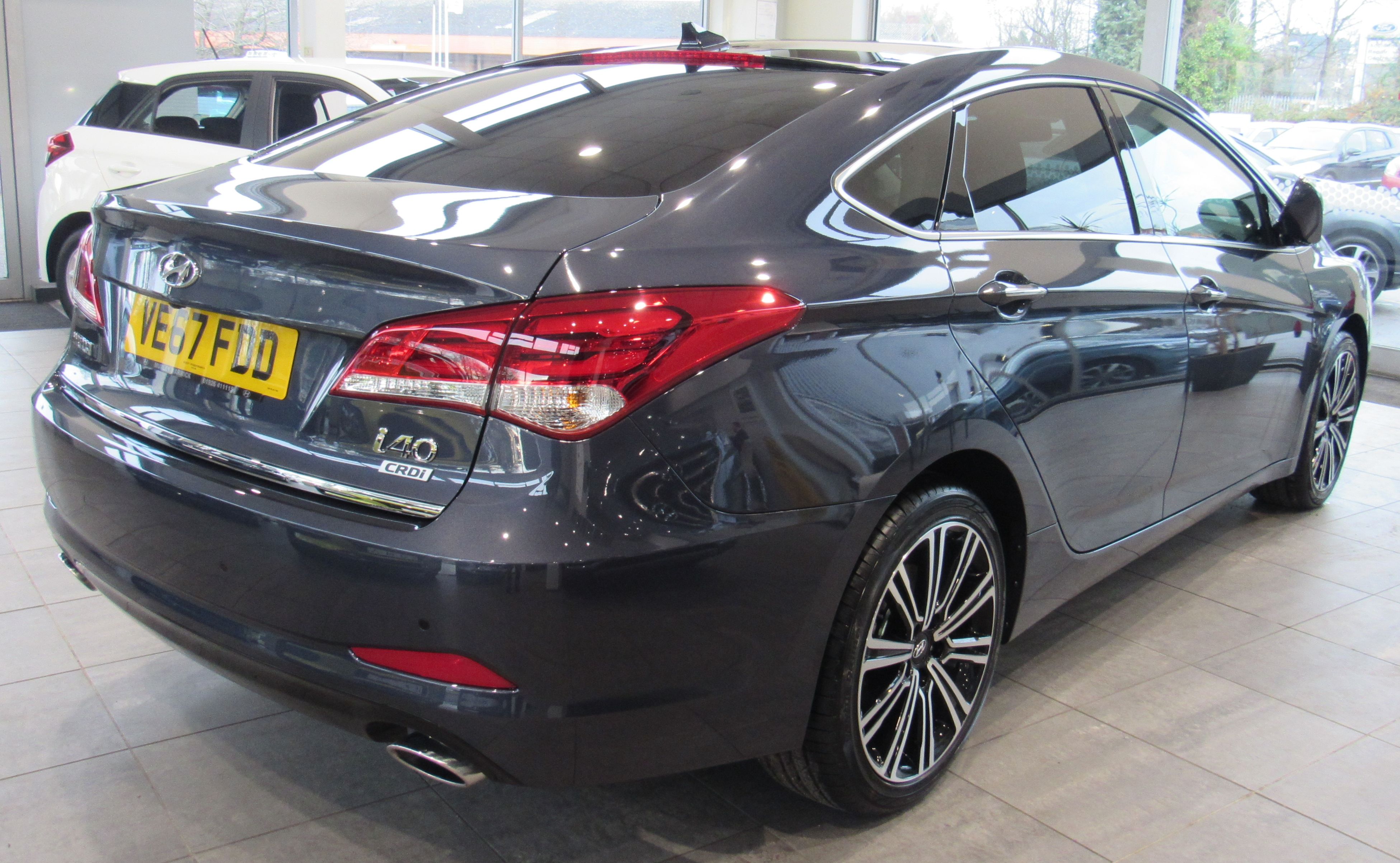 2017 Hyundai i40 CRDi Taken in Warwick